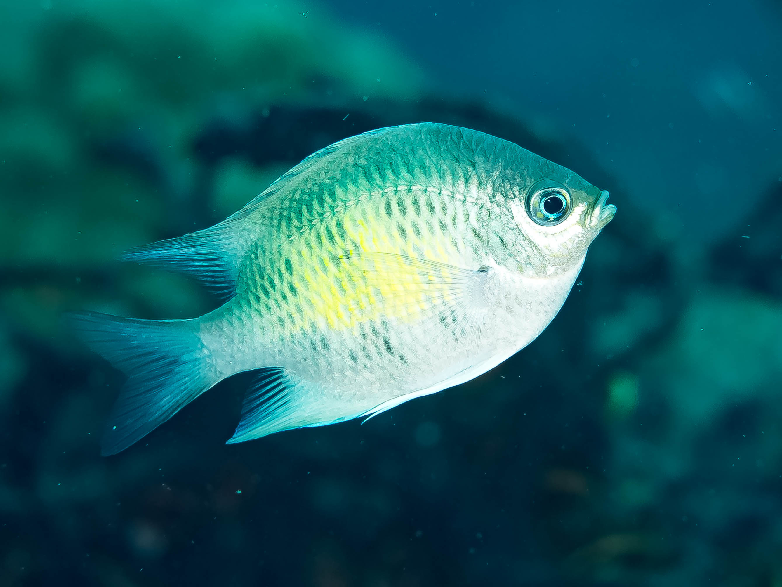 Halmahera, Indonesia - Staghorn damselfish (Amblyglyphidodon curacao)